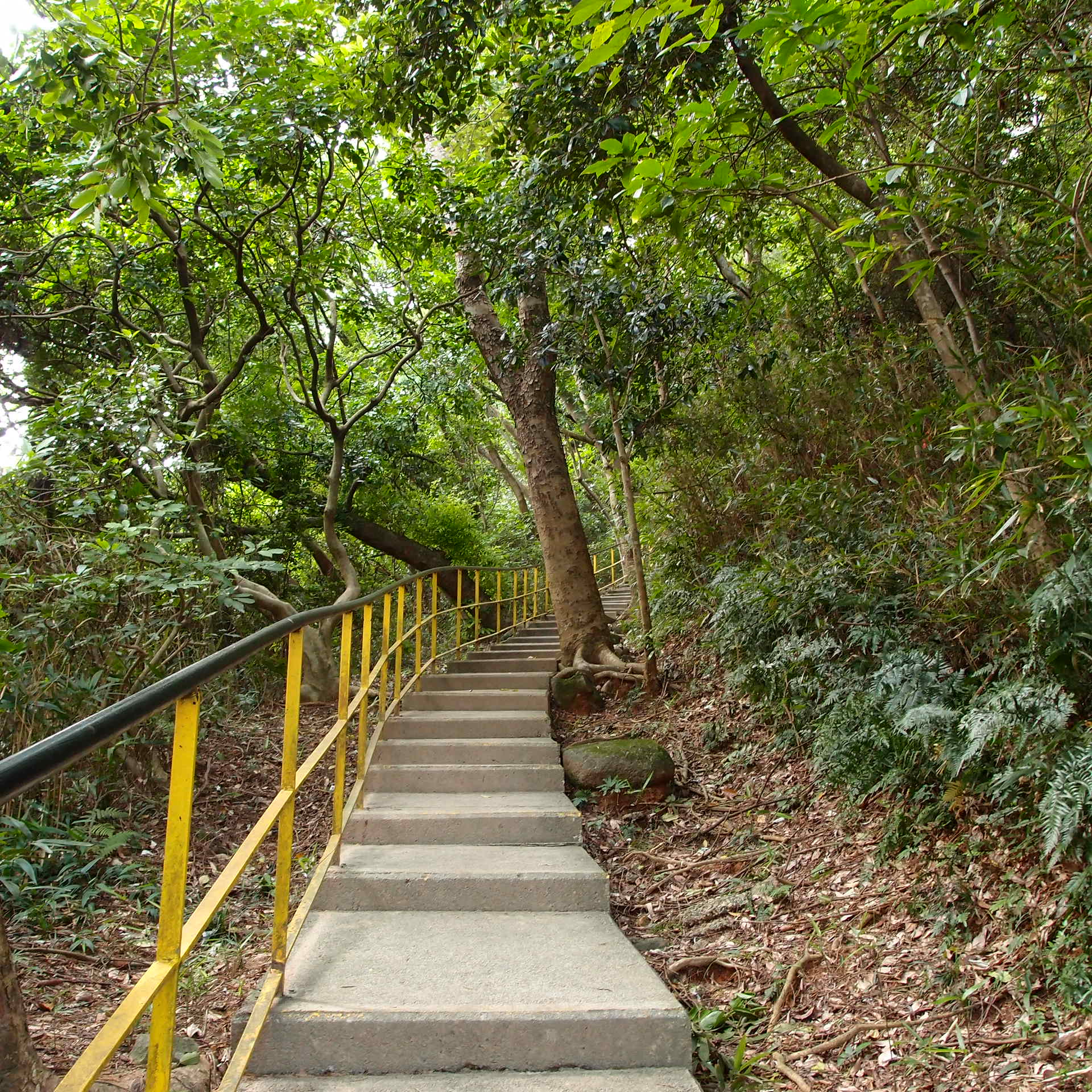 通向山頂的樓梯，平緩易走